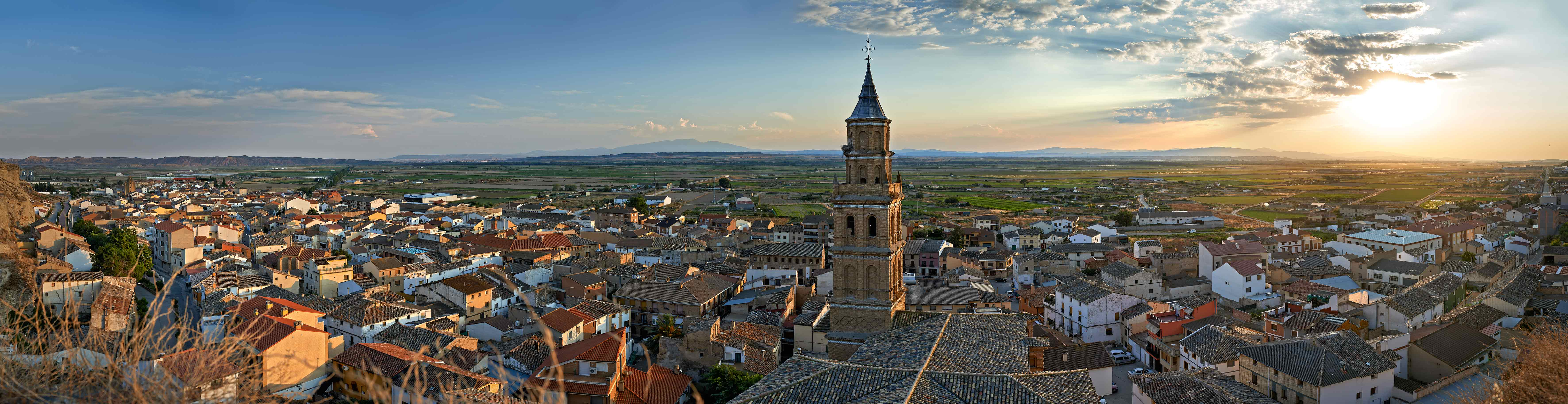 Arguedas general landscape